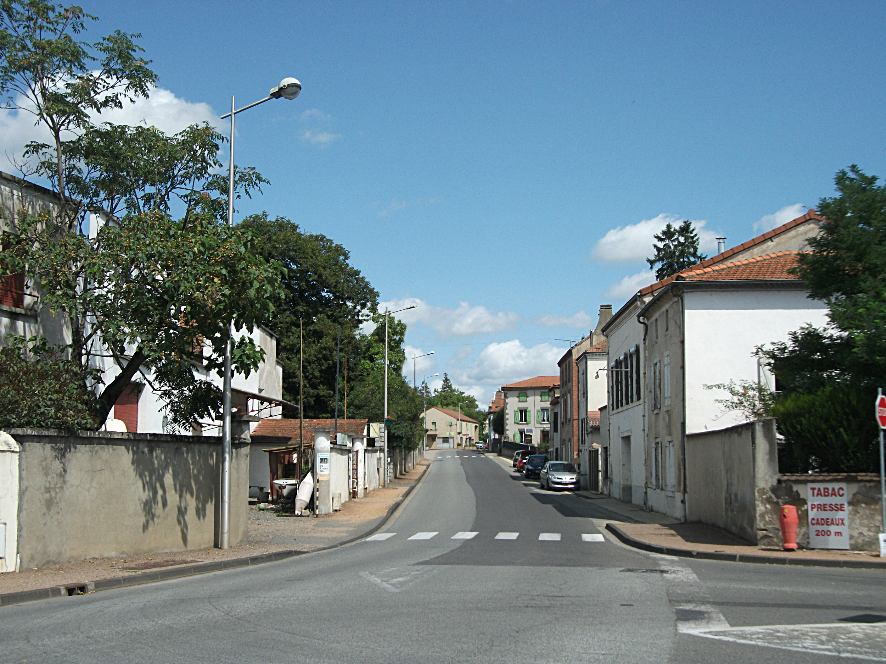 Departmental road 1093 towards Maringues, in Joze, Puy-de-Dôme, France [15151]